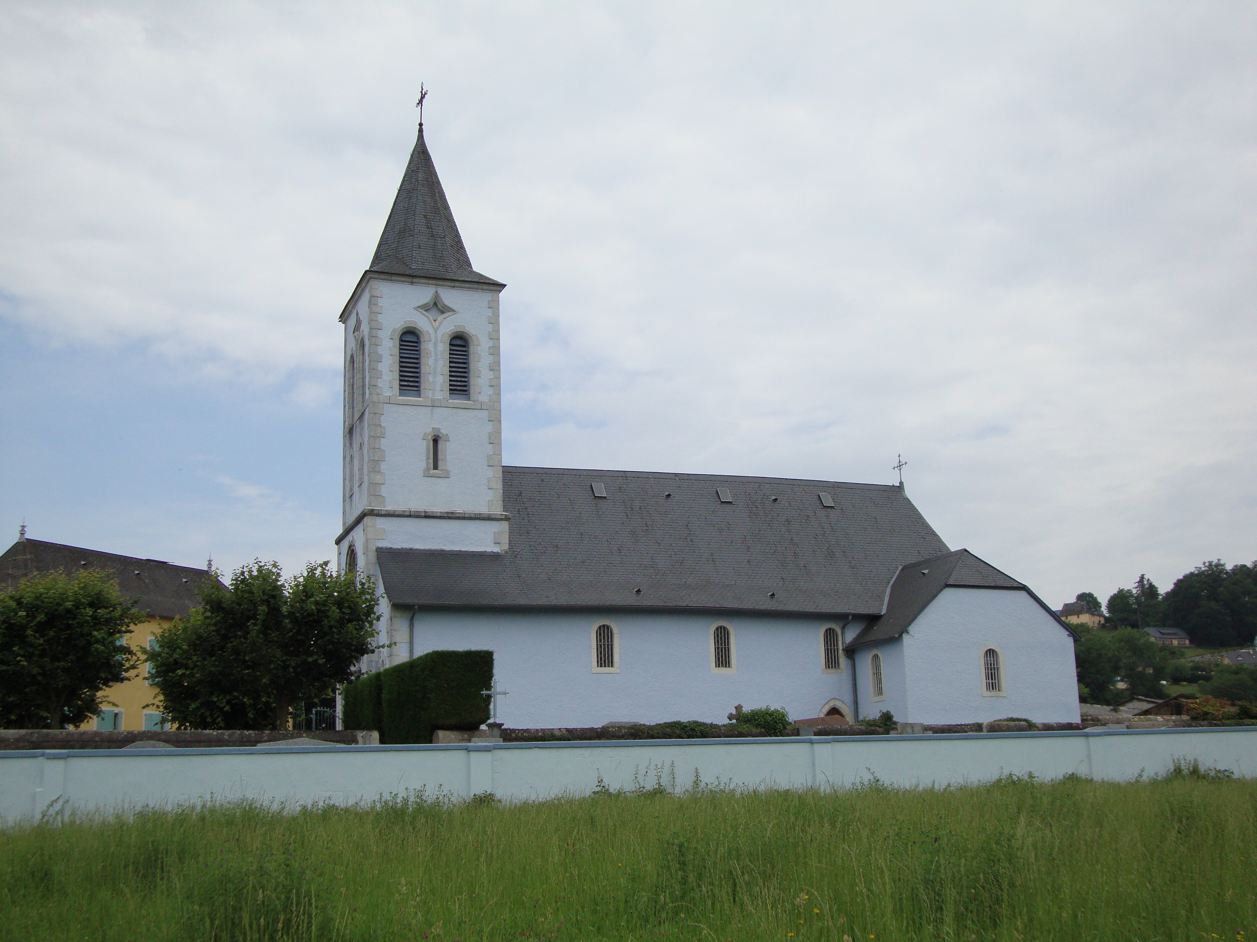 Estialesq (Pyr-Atl, Fr) church, side view